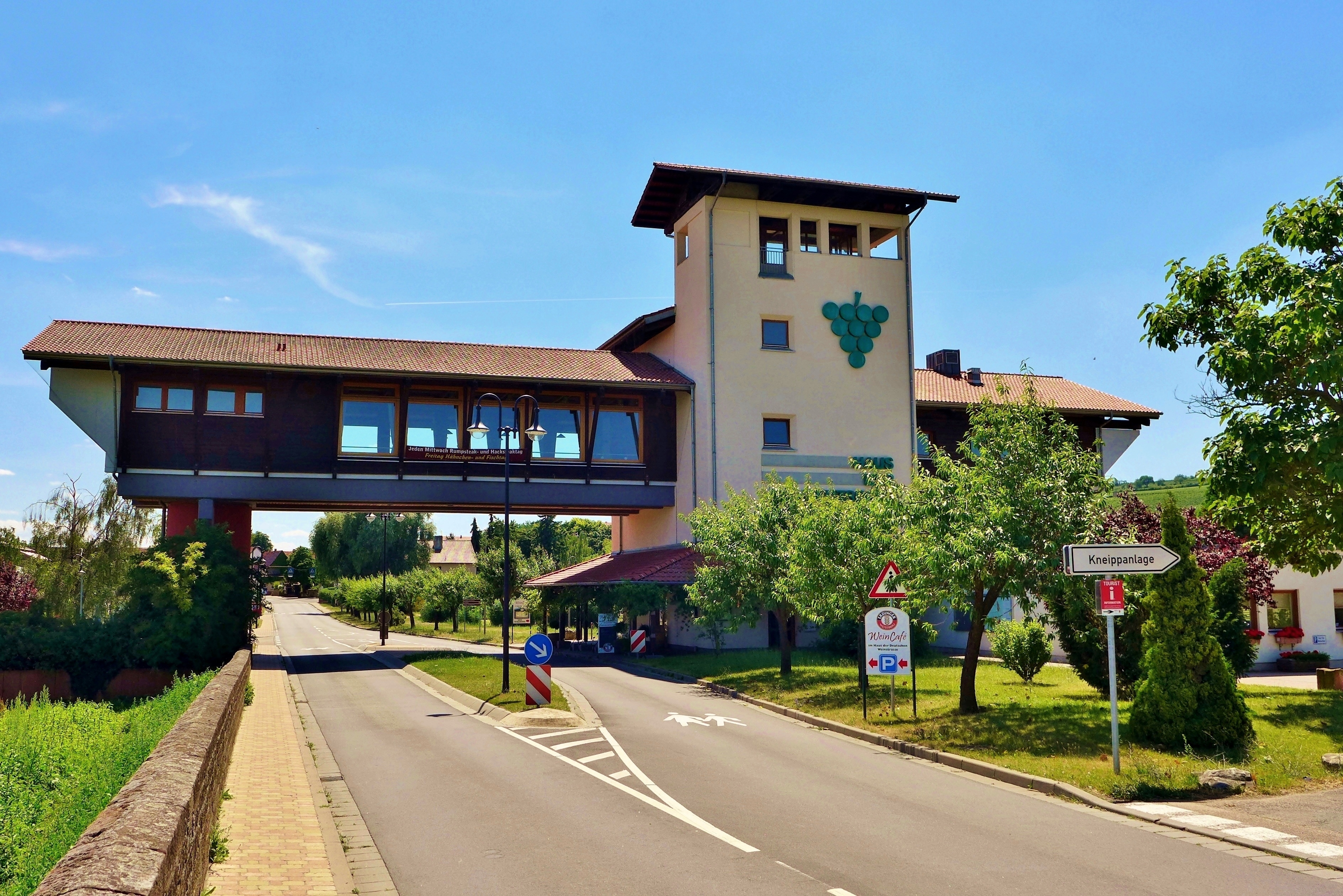 View of the Haus der Deutschen Weinstraße, Bockenheim an der Weinstraße, Rhineland-Palatinate, Germany, from the north.